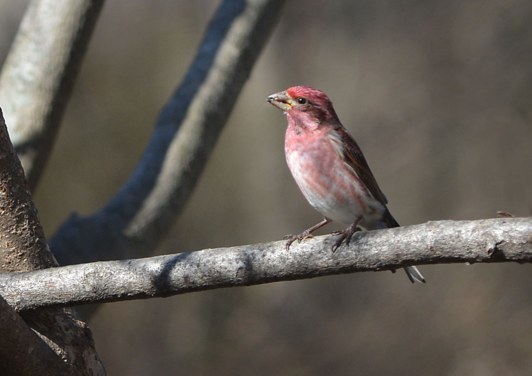 Purple Finch in Central Illinois U.S.A.